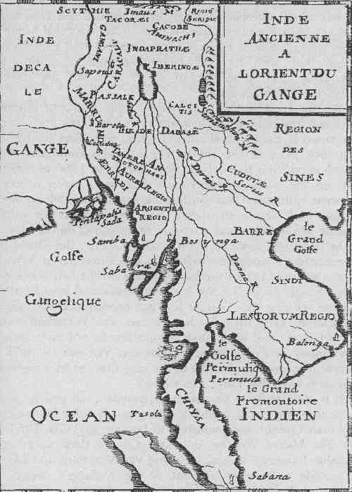 A map of 1715 by French, incorrectly showing the Chao Praya river as a branch of the Mekong.